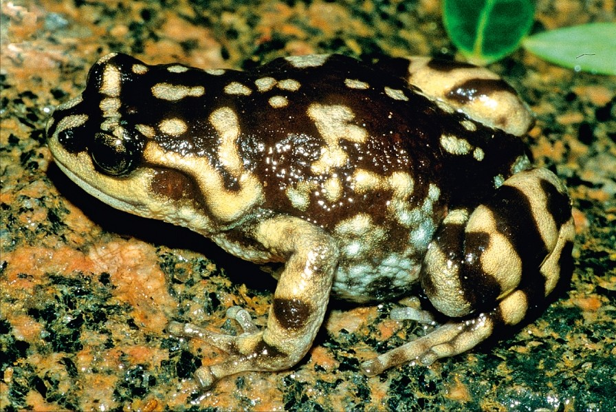 Anodonthyla rouxaeSpecimen from Andringitra National Park.